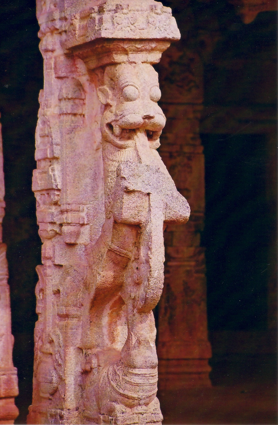 The sculpture is a standard Vijayanagara style mantapa pillar.